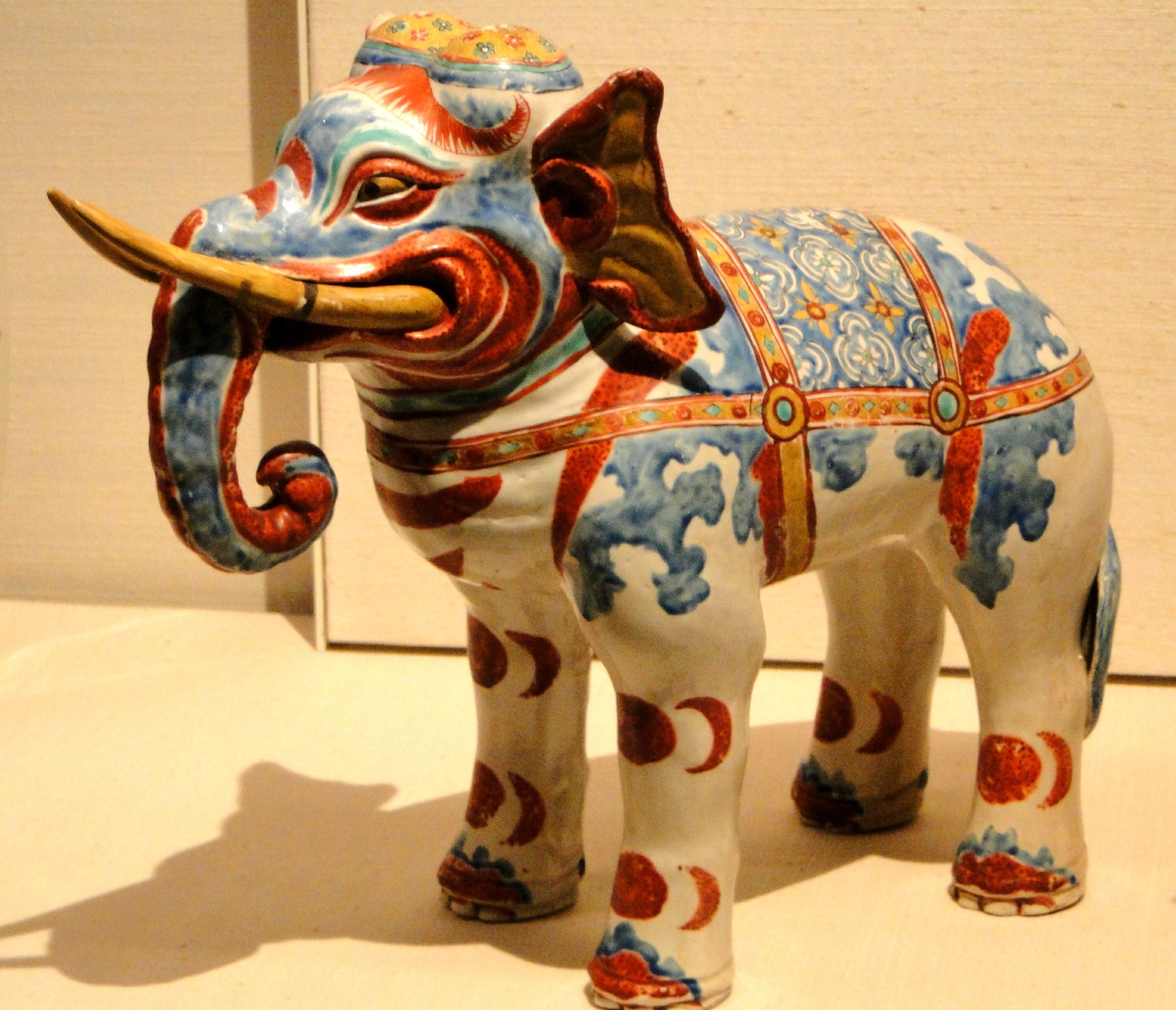 Kakiemon elephant, 1660-90 The Kakiemon elephants are a pair of porcelain elephants in the British Museum. They were made by the Kakiemon pottery which created the first enamelled porcelain in Japan. They were manufactured and then export by the early Dutch East India Company. These figures date from 1660 to 1690 and are in the style known as Kakiemon